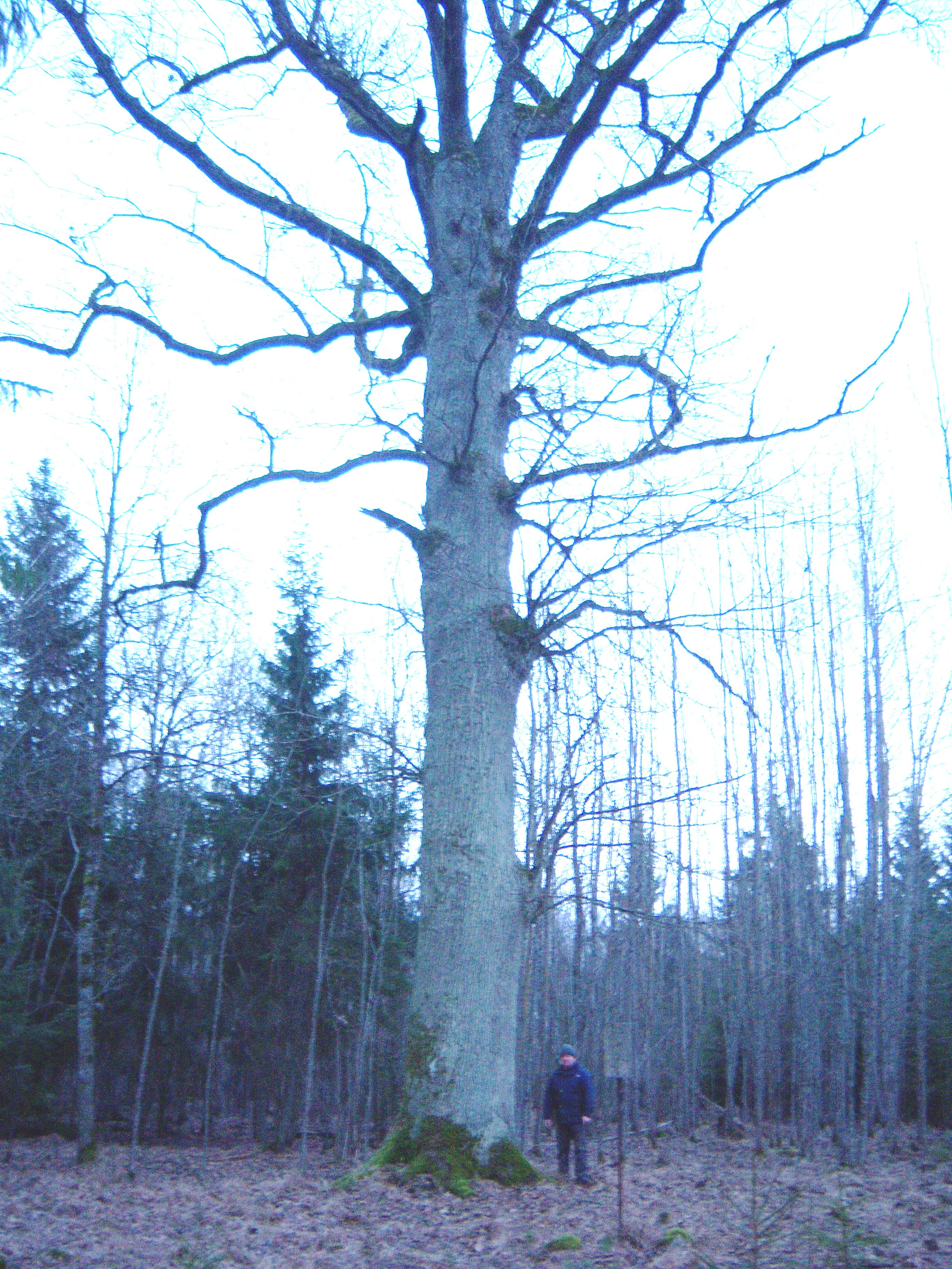 Great Padubysys Forest Oak near Mosteikiai, Kelmė District, Lithuania